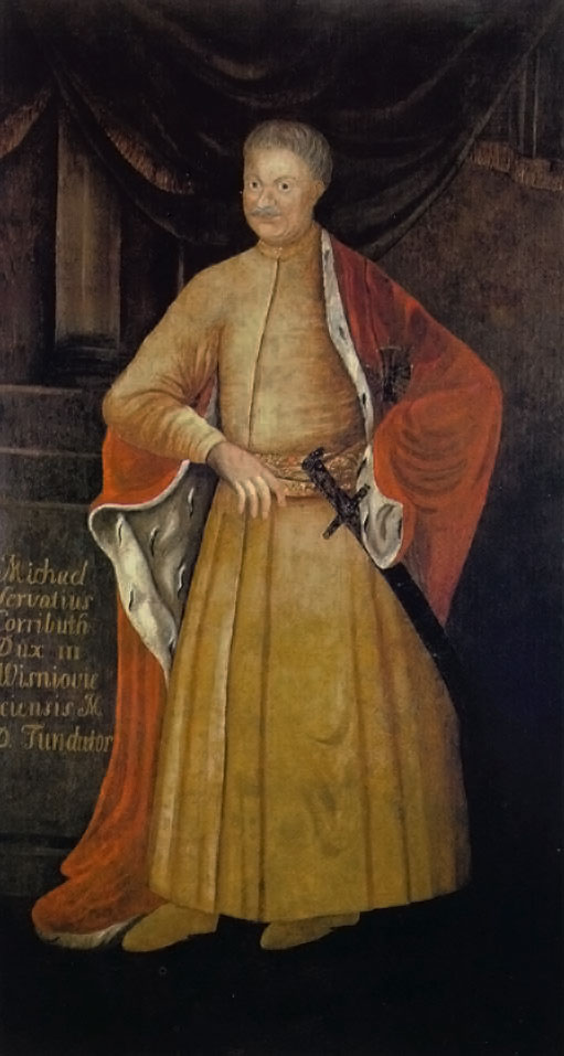 Portrait of Michał Serwacy Wiśniowiecki (1680–1744)